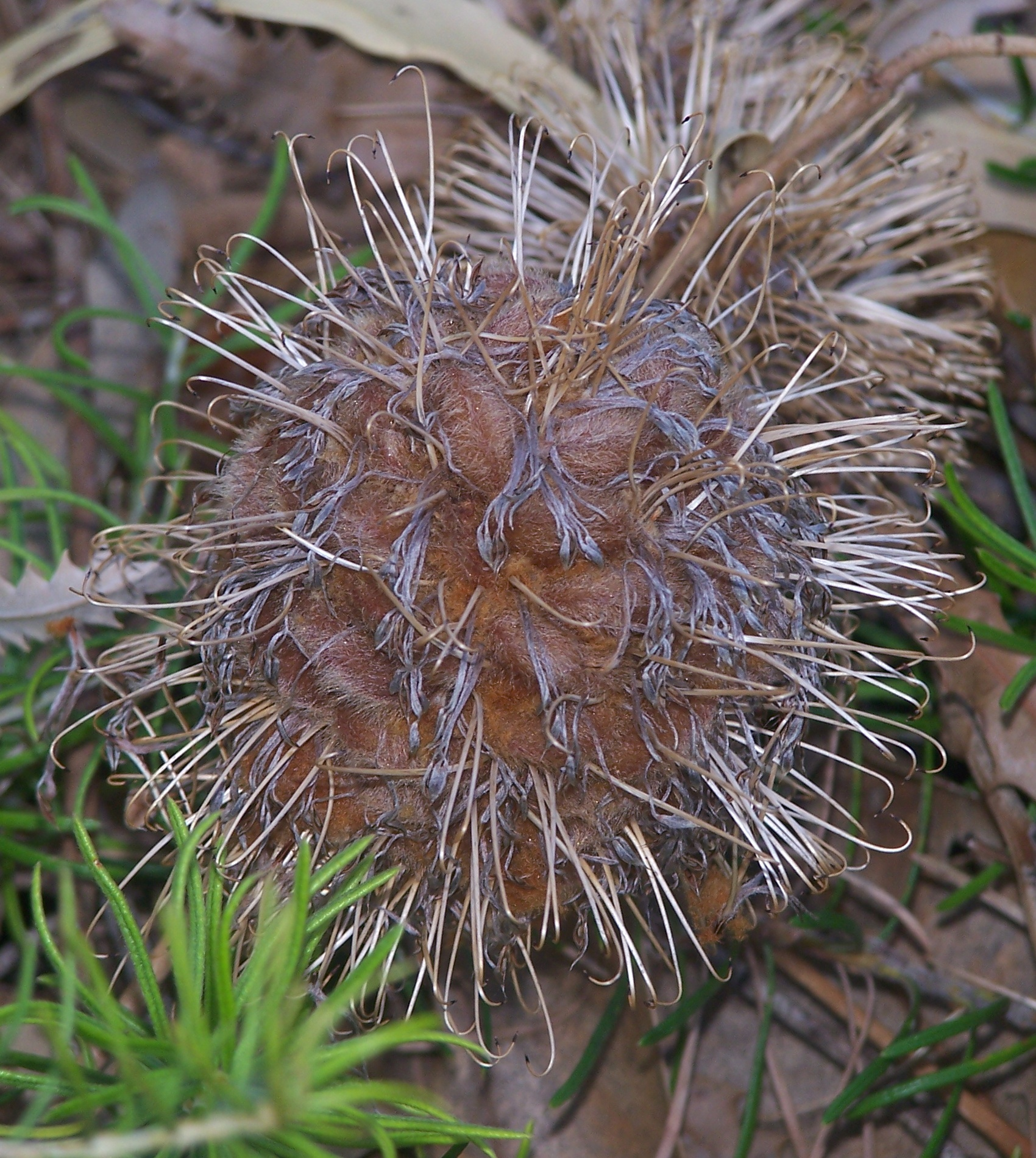 This is a cropped version of Image:B telmatiaea 06 gnangarra.jpg, which was taken by Gnangarra on 8 January 2007, in Kings Park, Western Australia. It shows the infructescence of Banksia telmatiaea, an Australian shrub.